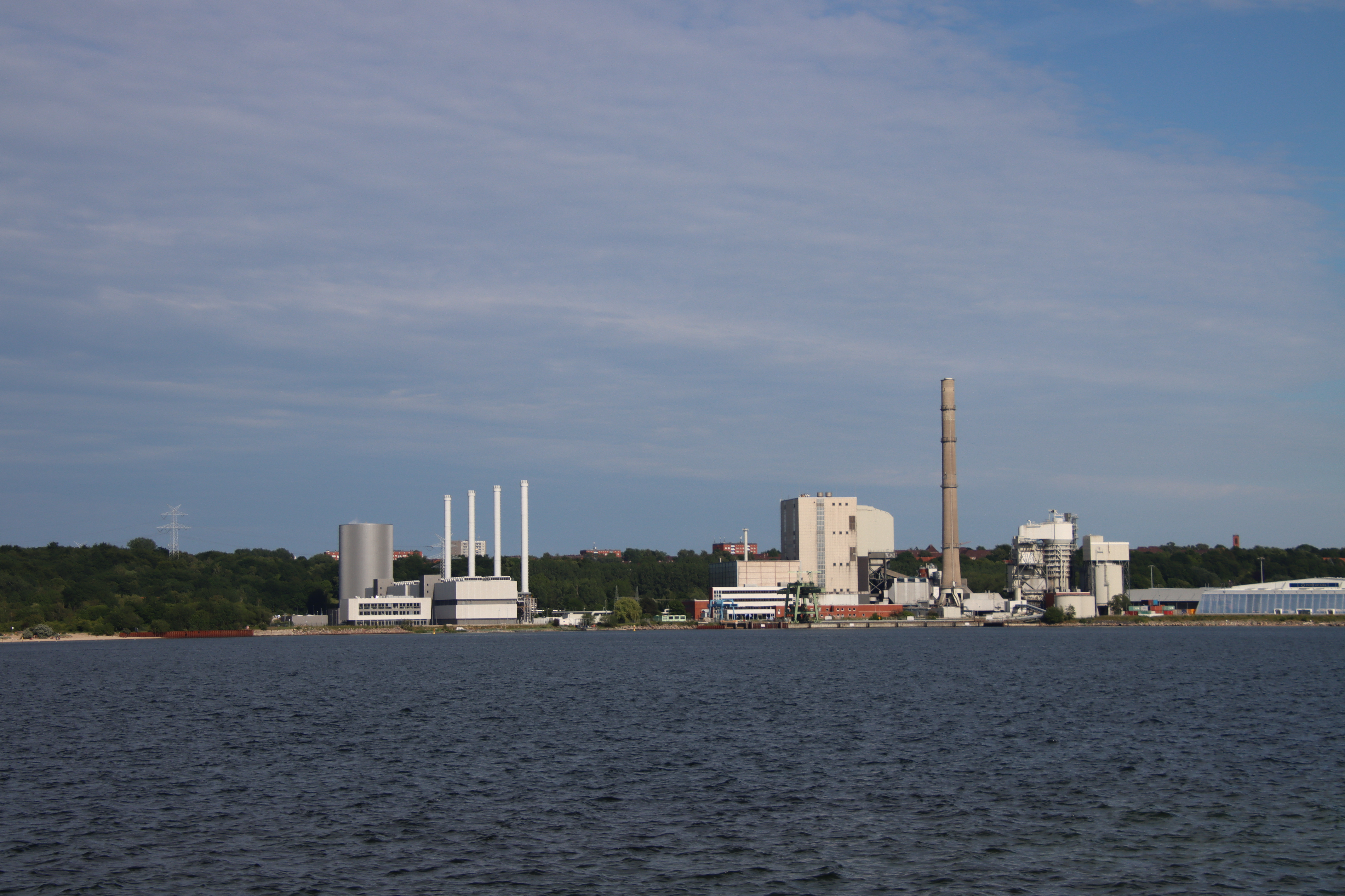 Picture of Coal fired power station Kiel and new gas engine power station